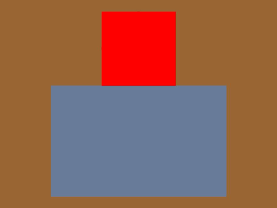 The distinguishing patch of the 5th Battalion Canadian Mounted Rifles from the 8th Infantry Brigade, 3rd Canadian Division. Summary The distinguishing patch of the 5th Battalion Canadian Mounted Rifles from the 8th Infantry Brigade, 3rd Canadian Division.